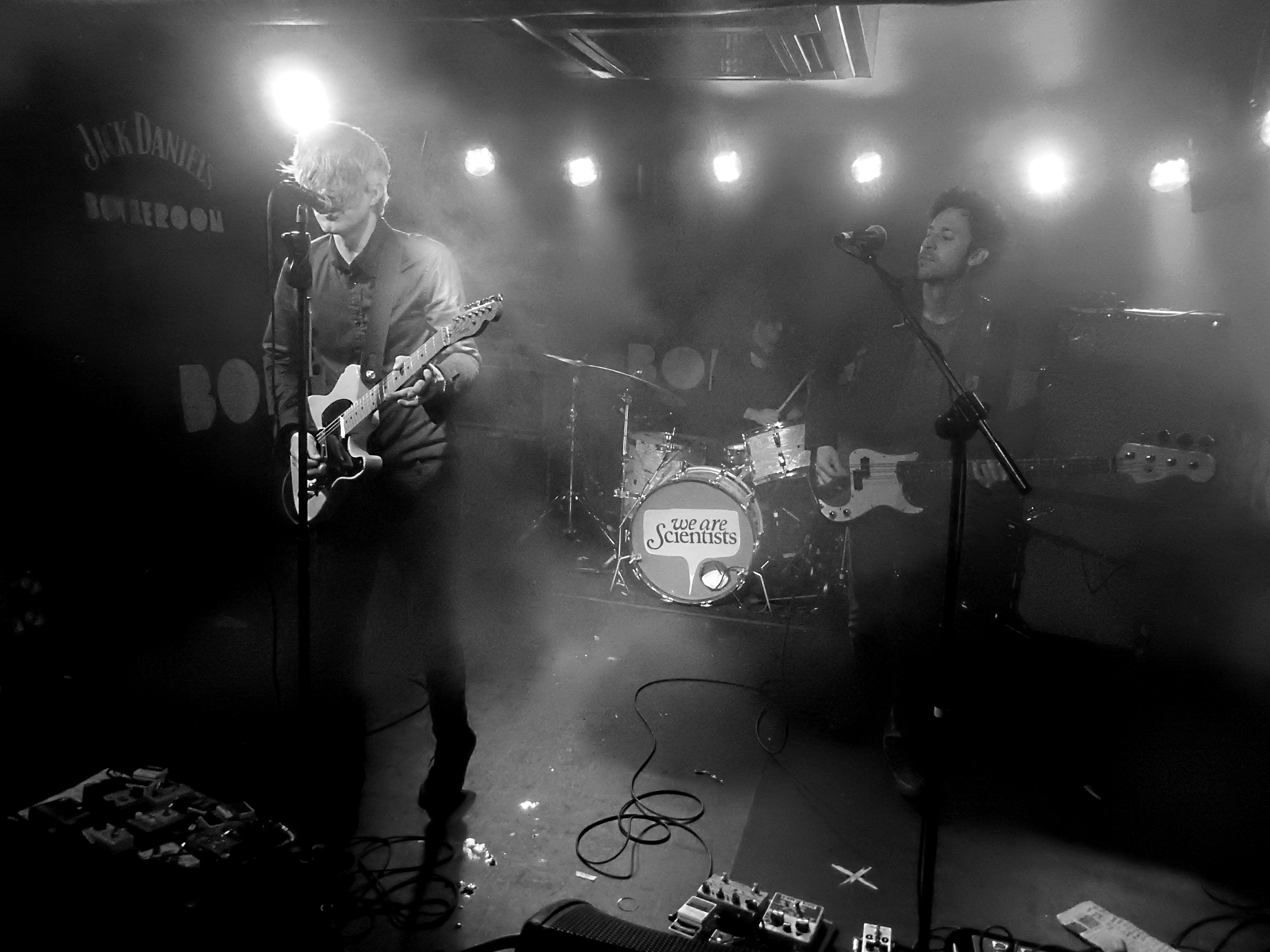 We Are Scientists, Boileroom, Guildford